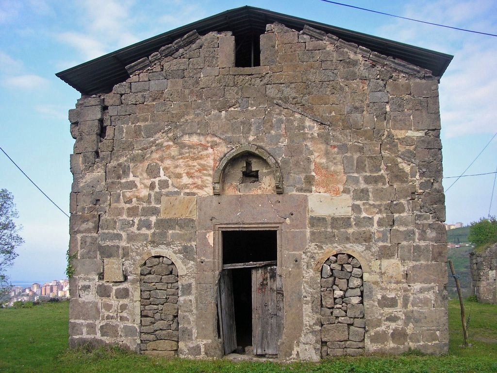 Kaymakli monastery front, Trabzon, Turkey